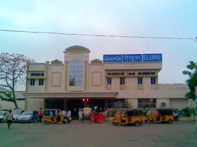 Eluru railway station